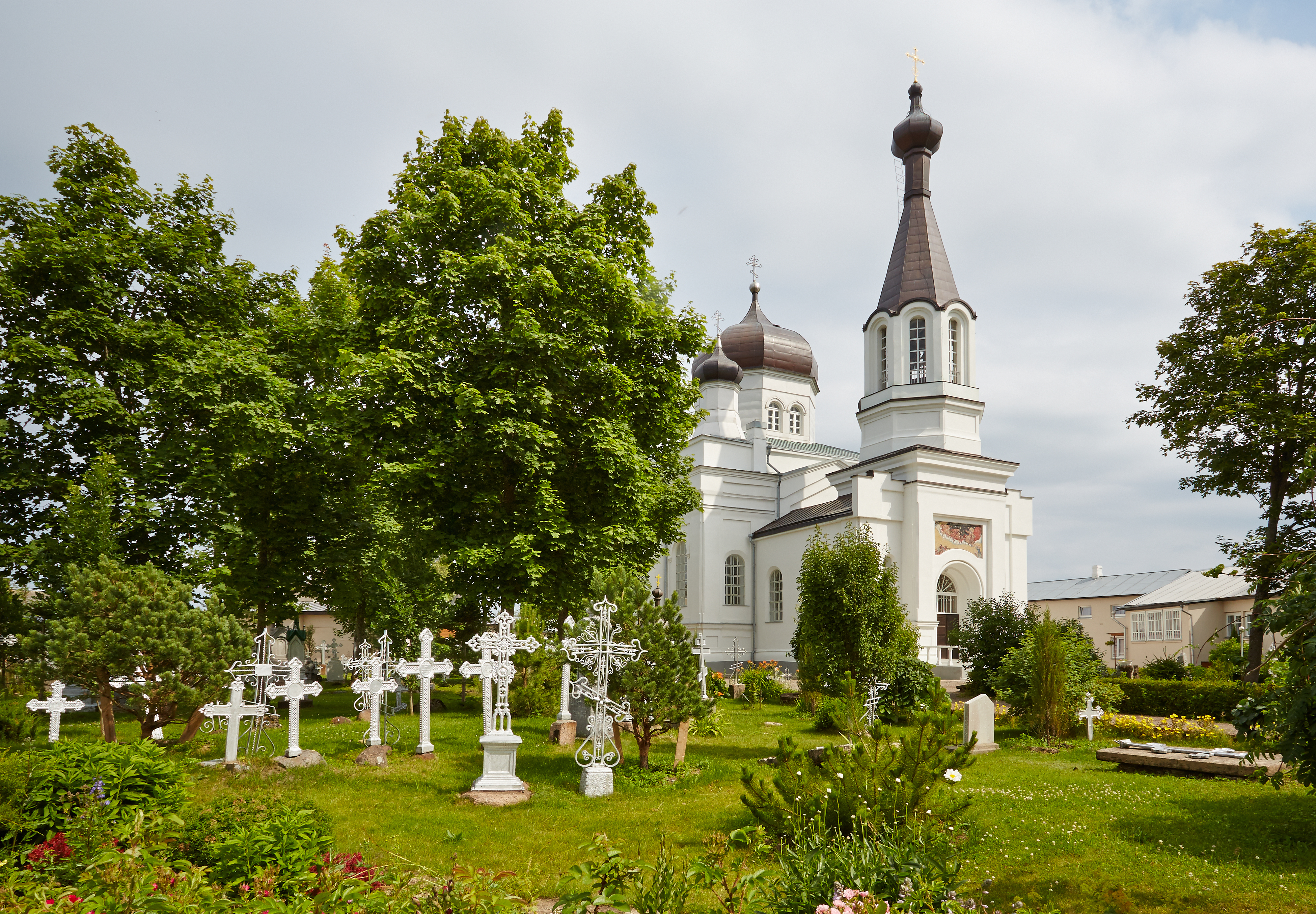 Vasknarva orthodox church in Estonia. Dedicated to prophet Elijah.